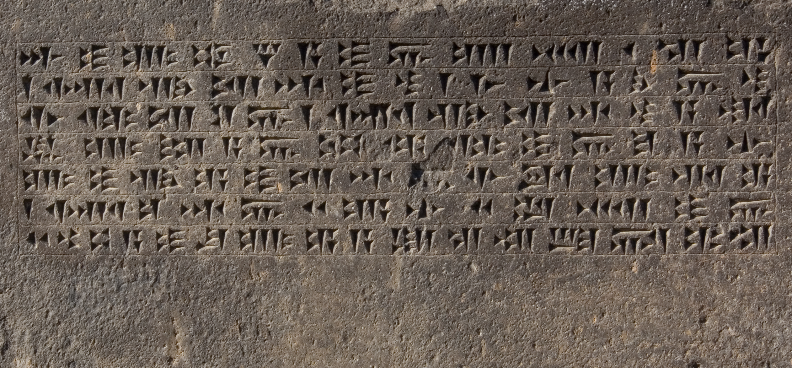 Cuneiform inscription on the left of the temple door.